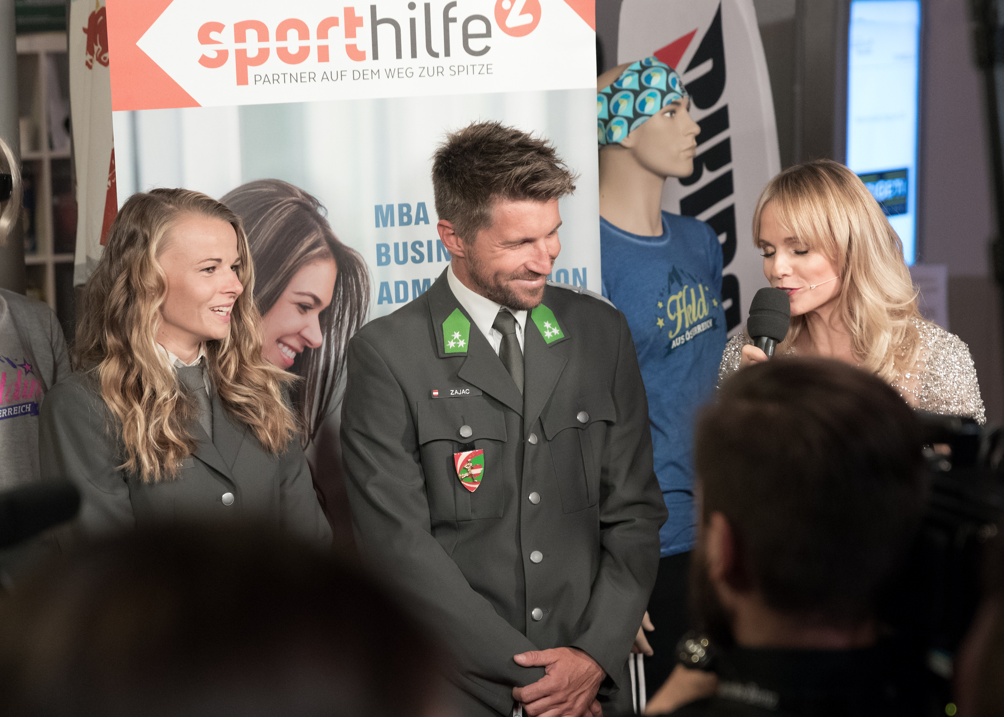 Tanja Frank, Thomas Zajac and Mirjam Weichselbraun at the gala for the Austrian Sports Personalities of the Year 2017 at Marx Halle (Sankt Marx, Vienna, Austria).